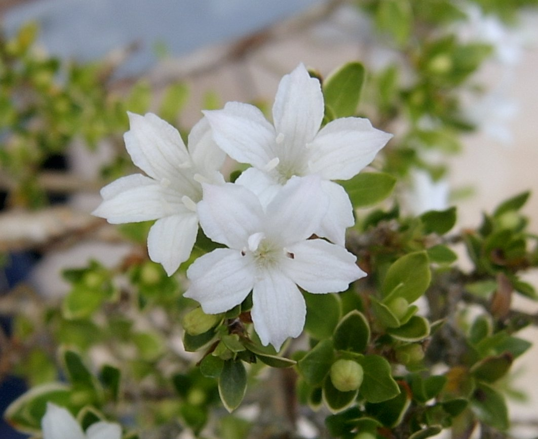 Blossom of Serissa foetida (Snow Rose) plant.